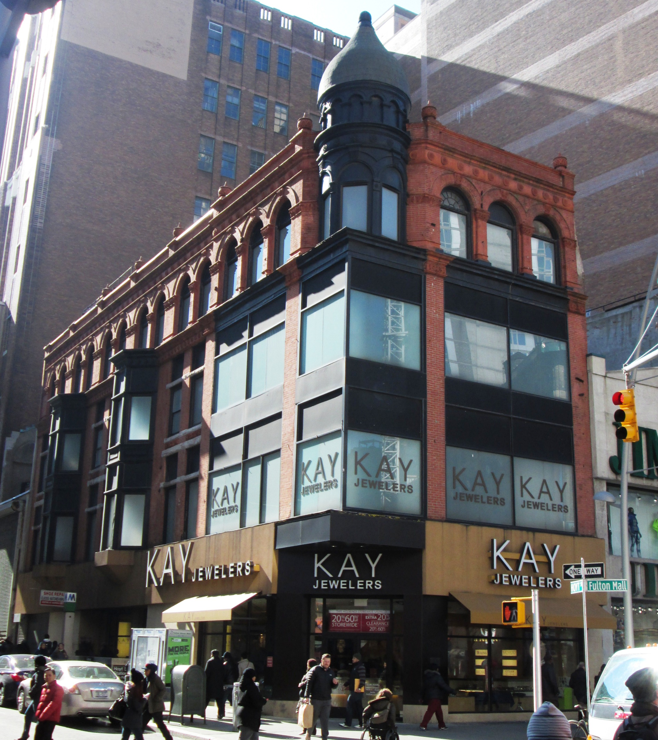 The Liebmann Brothers Building at 446 Fulton Street at the corner of Hoyt Street in the Civic Center area of Brooklyn, New York City was built in 1885 and was designed by the Parfitt Brothers in the Romanesque Revival style. (Source: AIA Guide to NYC (5th ed.))